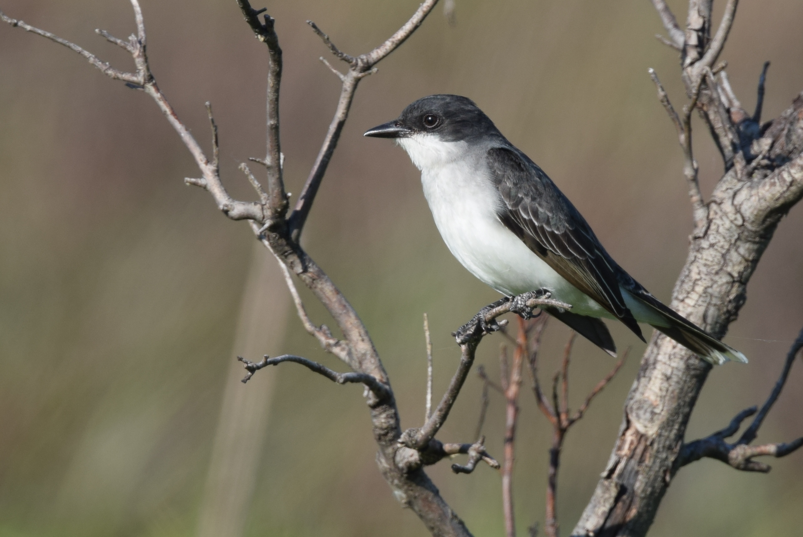 Clarence Cannon NWR 5/6/17